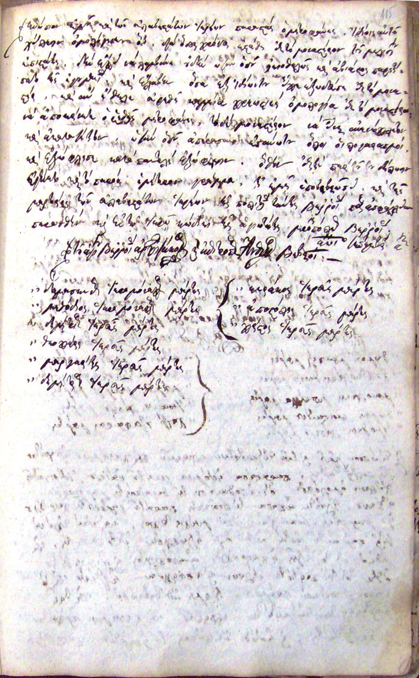 Veria Codex Mitrofanis Will